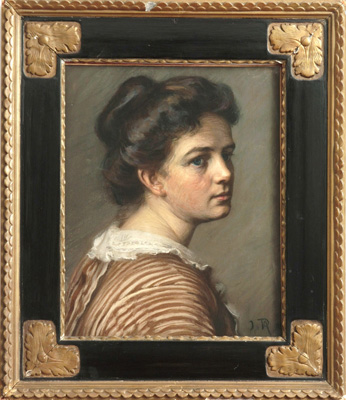 Margarete Rudolphi, by birth Haeberlin (1879-1954), wife of the painter Johannes Rudolphi